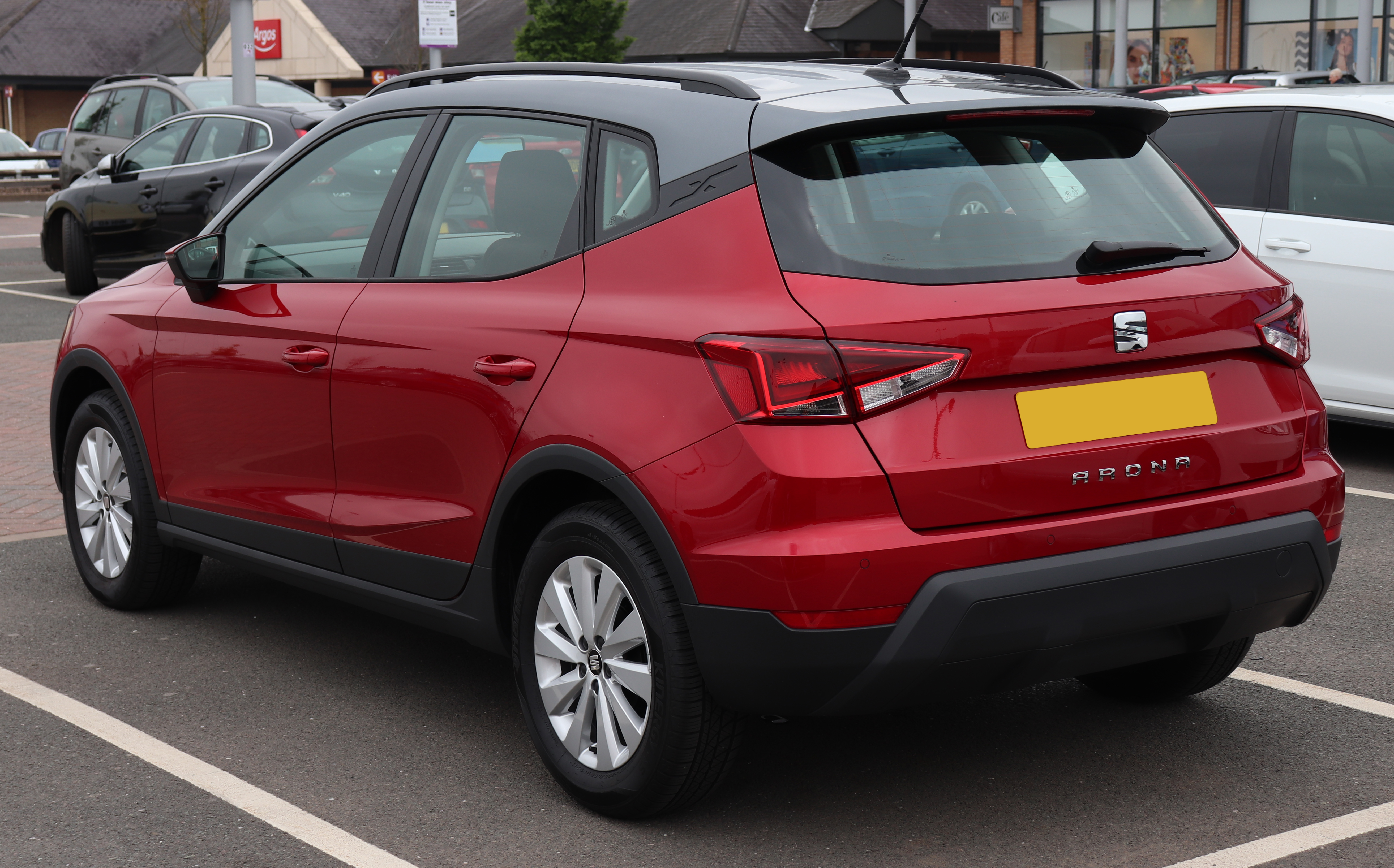 2018 SEAT Arona SE Technology TSi 1.0 Rear Taken in Leamington Spa